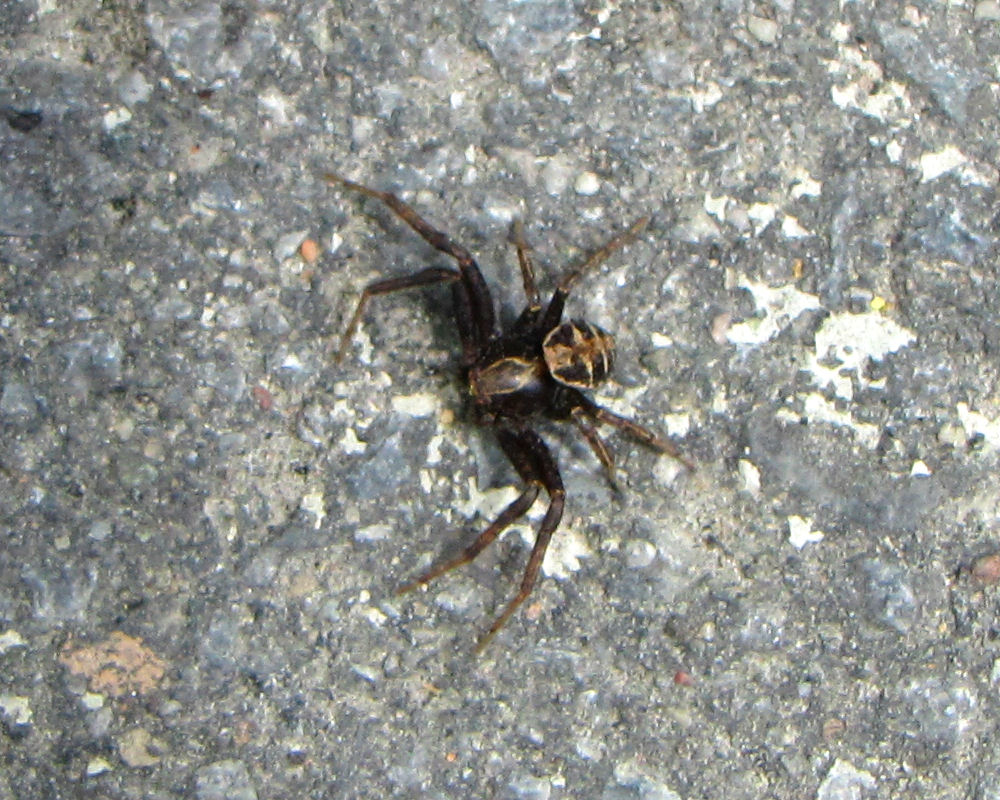 Ground Crab Spider (Xysticus cristatus), male, Ottawa, Ontario, Canada Wikispecies has an entry on: Xysticus cristatus